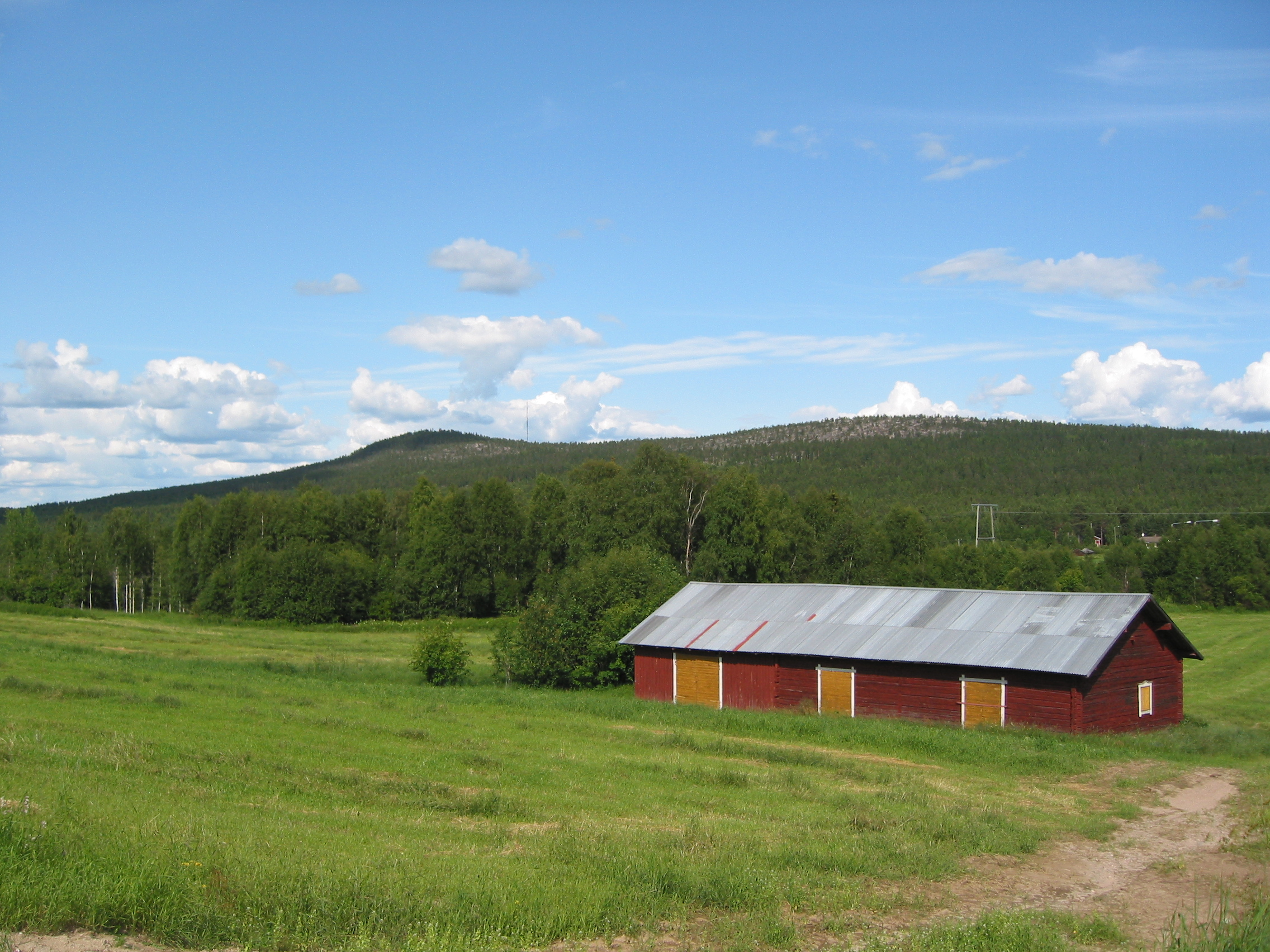 Aavasaksa hill in Ylitornio, Finland